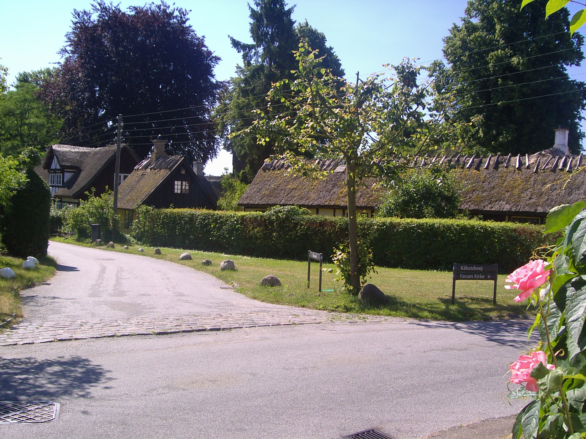 The old village in the town of Farum, Denmark